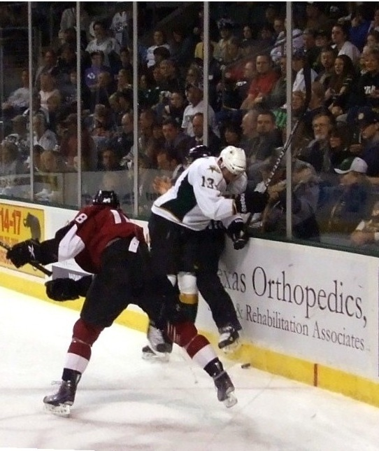 Dallas Stars / Texas Stars forward Ray Sawada